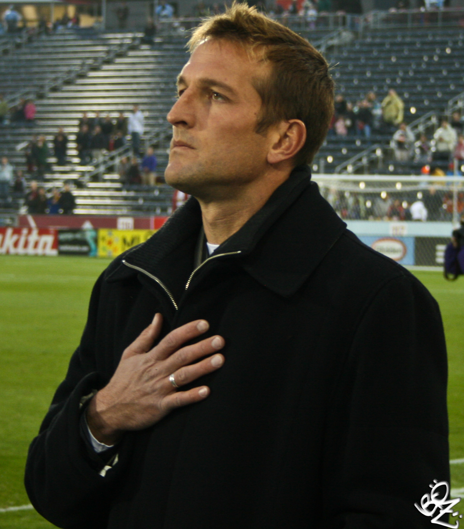 Photograph by Boz